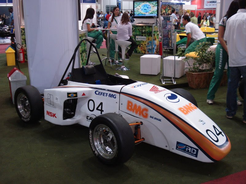 Cefast (Cefet-MG race team) car of formula SAE, in Belo Horizonte, Brazil.